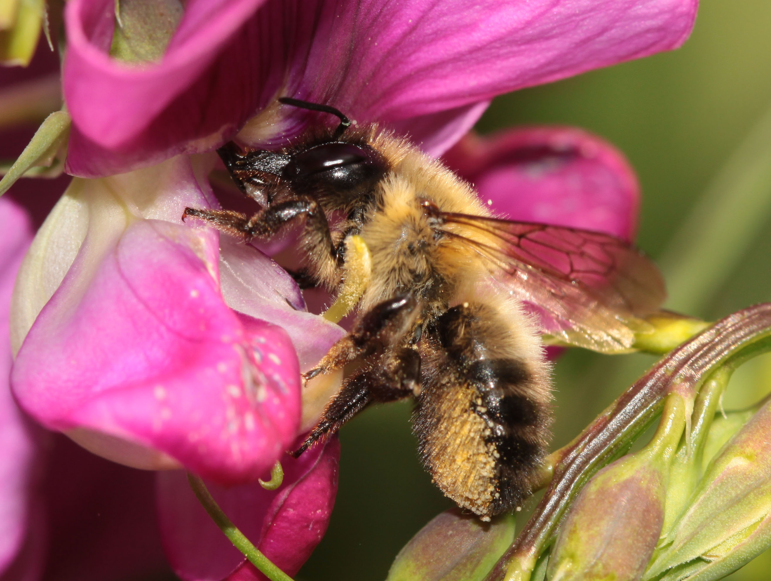 The female Megachile nigriventris on Lathyrus latifolius